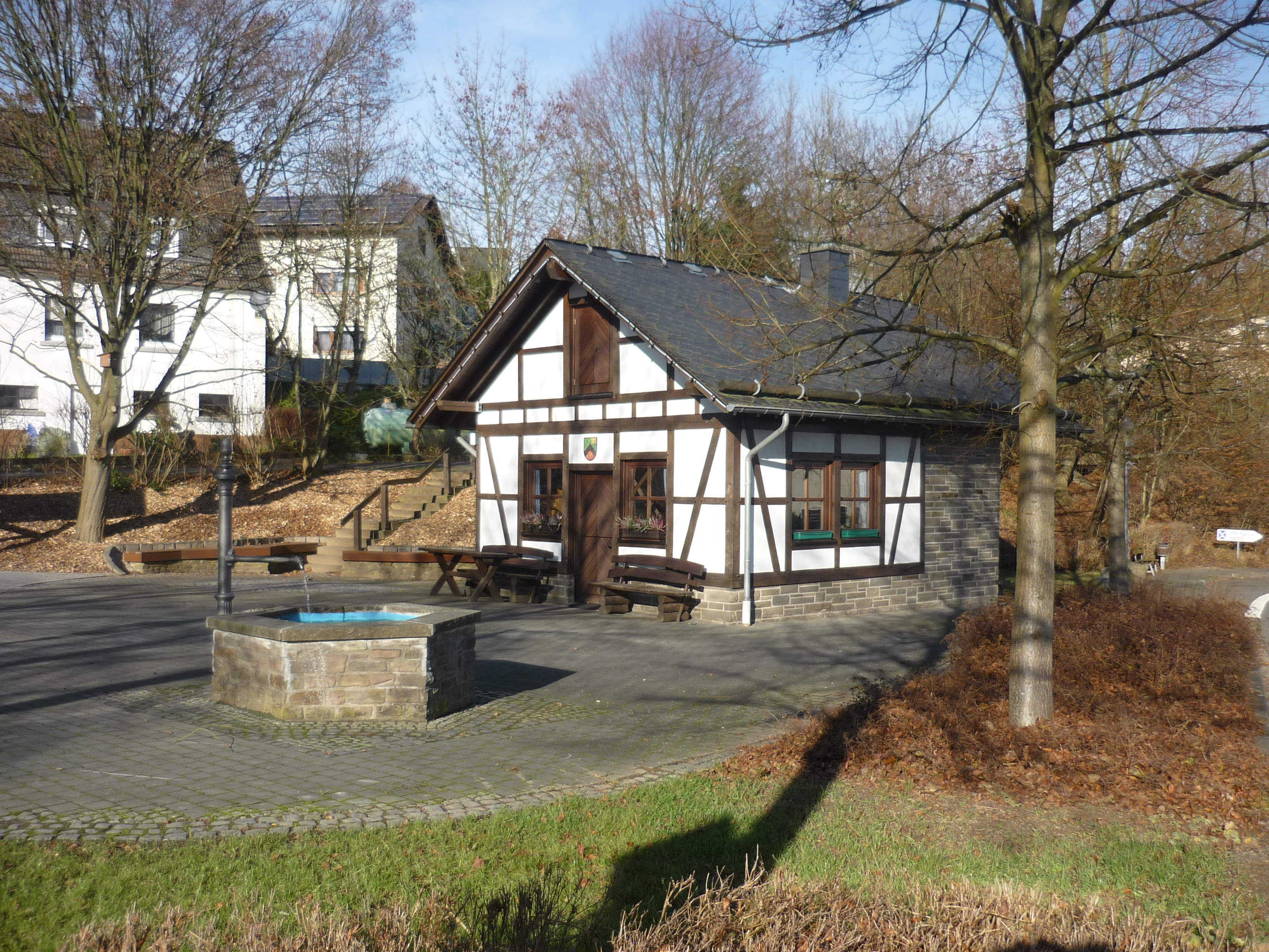 Winkelbach Westerwald